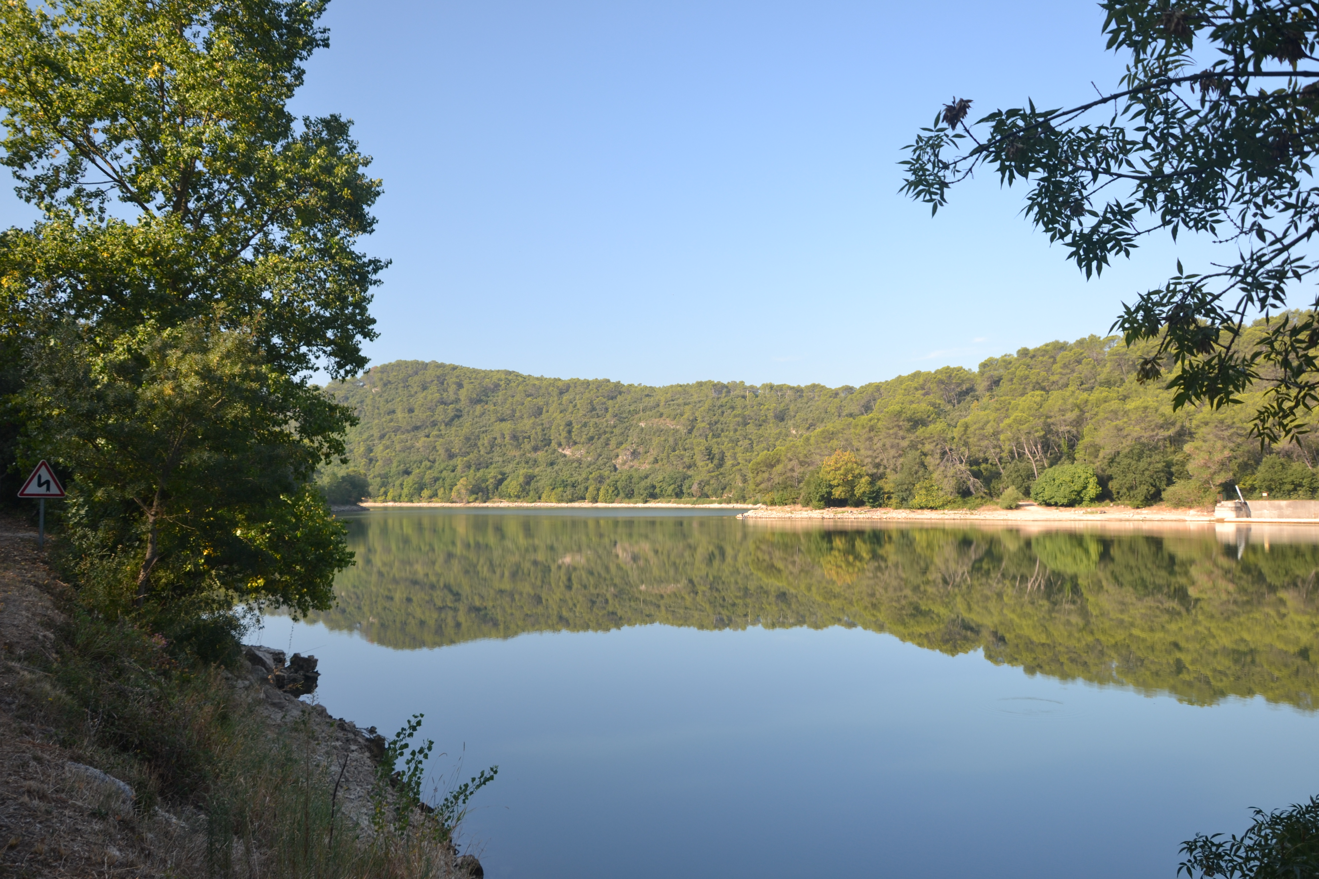 Lake of Carcès